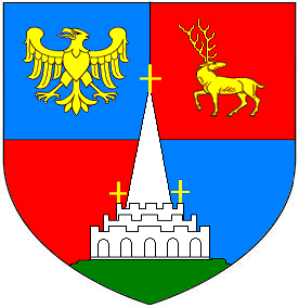 Arms of Templer of Stover, Lindridge (Devon) & Shapwick (Somerset), from 1794 stained glass image in Shute Church of arms of George Templer of Shapwick. Arms of Templer, as depicted 1794 stained glass image in Shute Church of arms of George Templer of Shapwick, which differ in several details from the official grant of 1765 registered in the College of Arms: On a mount in base vert the perspective of an antique temple argent of three stories, each embattled; from the second battlement two steeples, [sic] and from the top, one, each ending in a cross sable [sic] on the pinnacle; in the first quarter an eagle displayed; in the second a stag trippant regardant or. In no image of the Templer arms in Shute Church, Stover House or Teigngrace Church are two steeples shown from the second story. Often only one cross argent is shown from the top steeple. The depiction above shows three crosses or. The temple is seemingly a canting reference to the mediaeval round Temple Church of the Knights Templar in London (itself modelled on the Byzantine version of the Temple of Solomon in Jerusalem) which was reconstructed after WWII bomb damage with two embattled stories but without a spire. Arms of Templer of Lindridge per Burke's Genealogical and Heraldic History of the Landed Gentry, 15th Edition, ed. Pirie-Gordon, H., London, 1937, p.2217: Quarterly azure and gules, the perspective of an antique temple argent on the pinnacle and exterior battlements a cross or; in the first quarter an eagle displayed in the second quarter a stag trippant reguardant both of the last